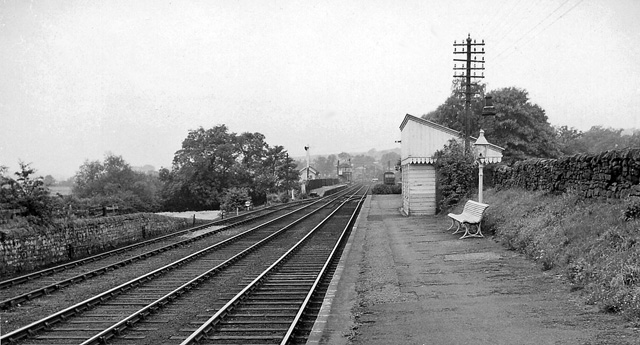 Bardon Mill railway station , Bardon Mill, Northumberland, England. View westward towards Carlisle; Newcastle - Carlisle main line. Note the staggered platforms.